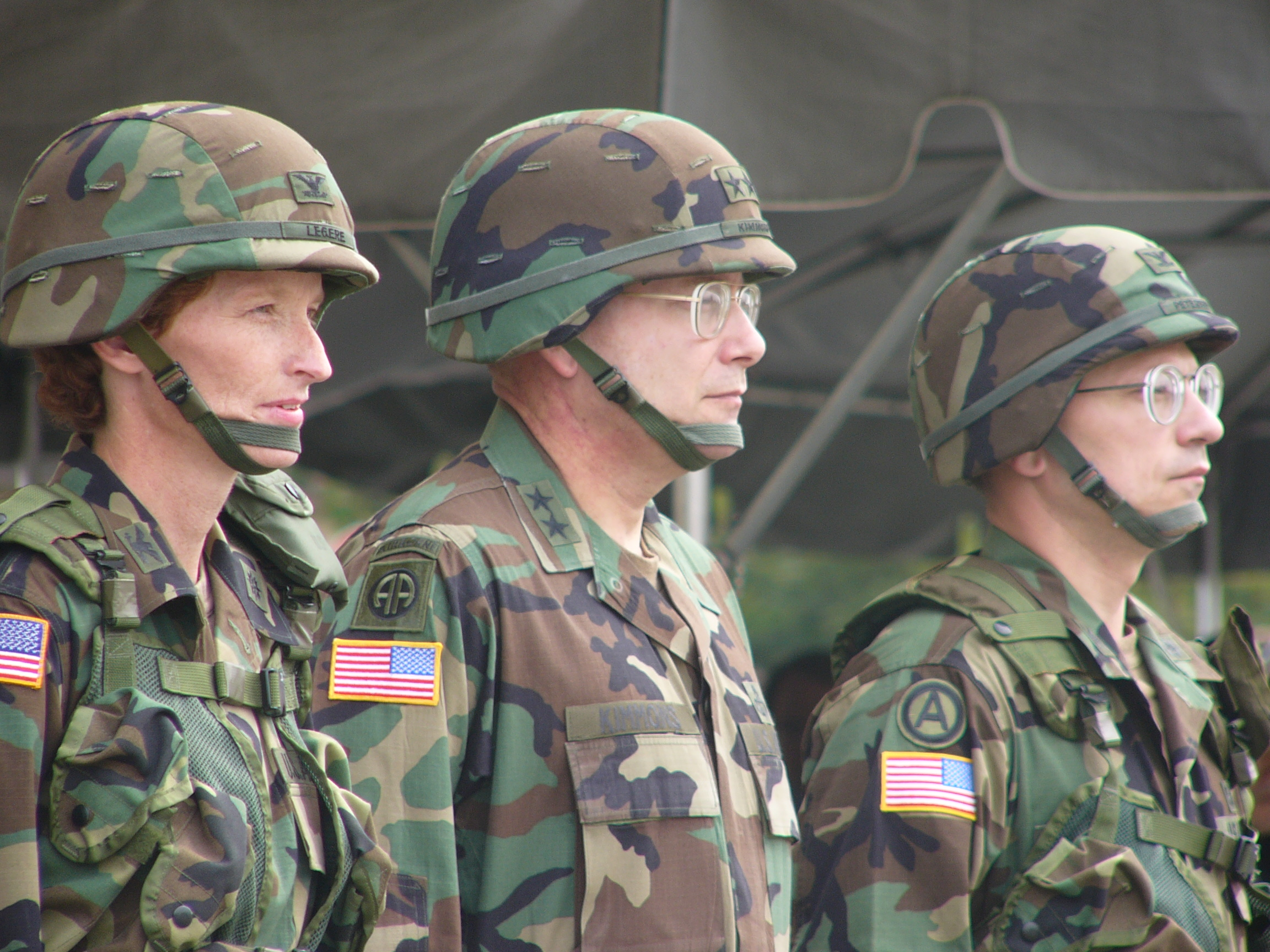 MG John F. Kimmons, center, officiating the 501st MI Brigade's Change of Command in June 2004. COL Mary Legere, outgoing commander, is in the foreground.